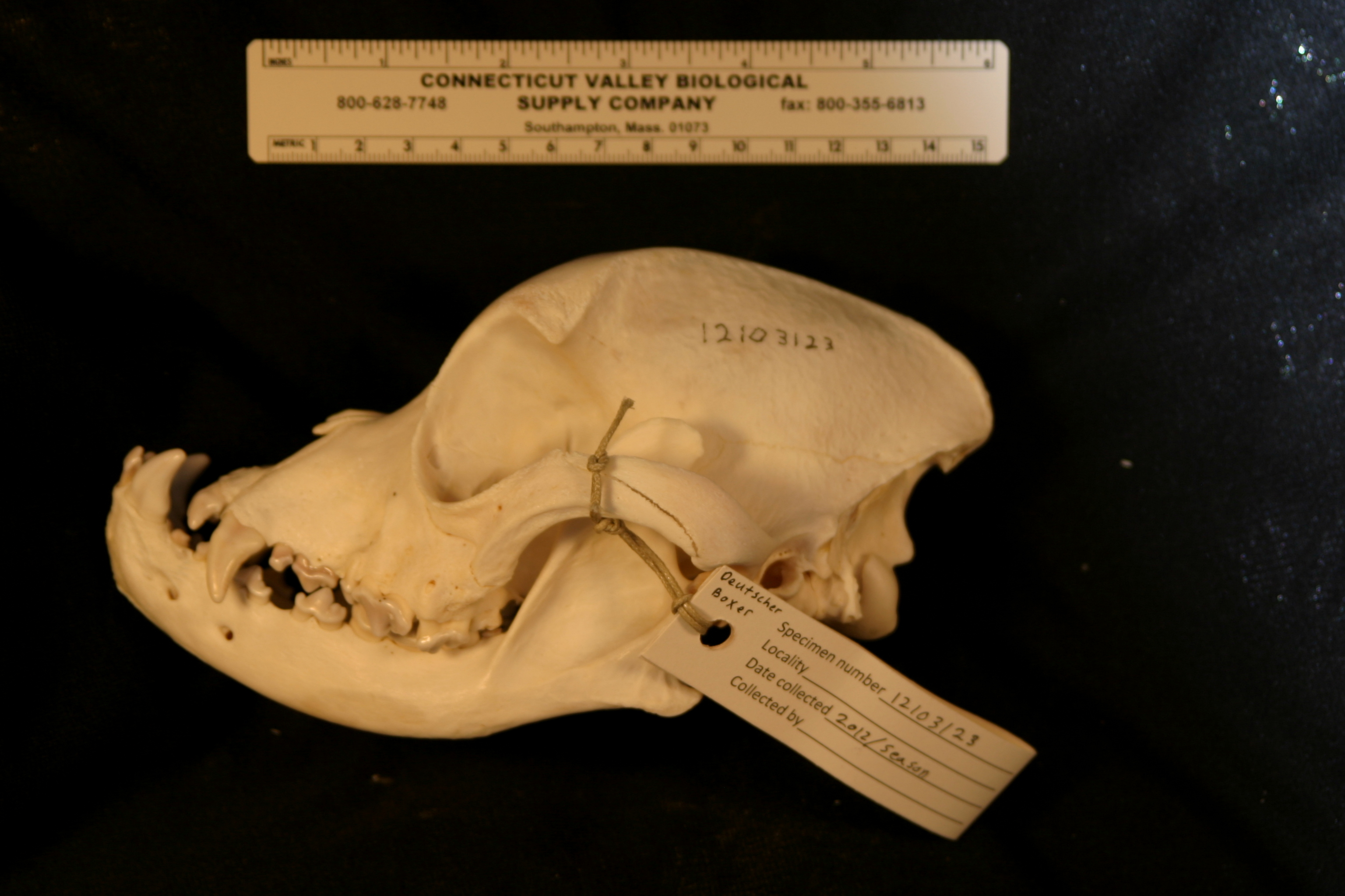 Specimen 12103123 left; 2012 Season